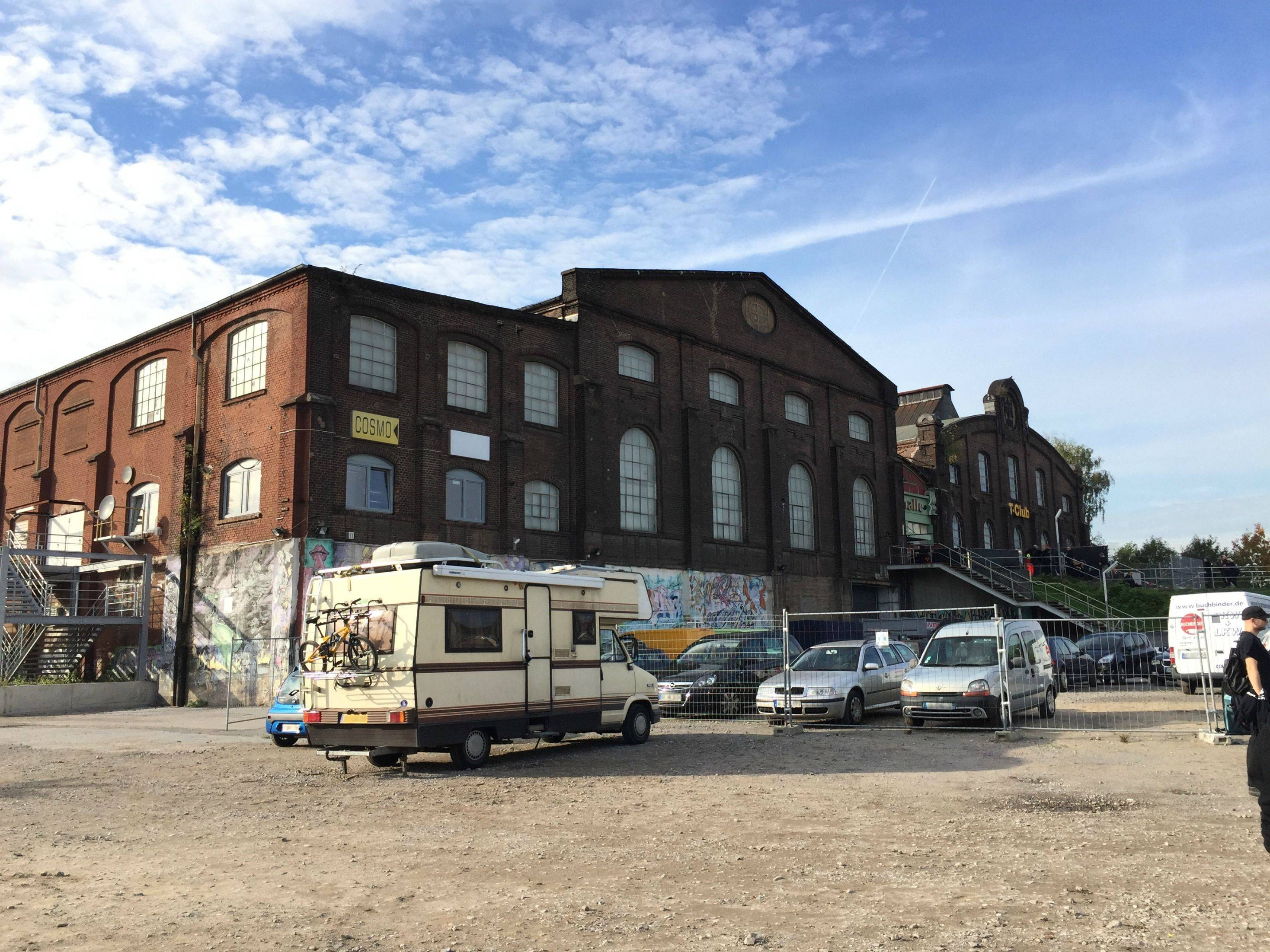 Picture of the Turbinenhalle in Oberhausen, Germany